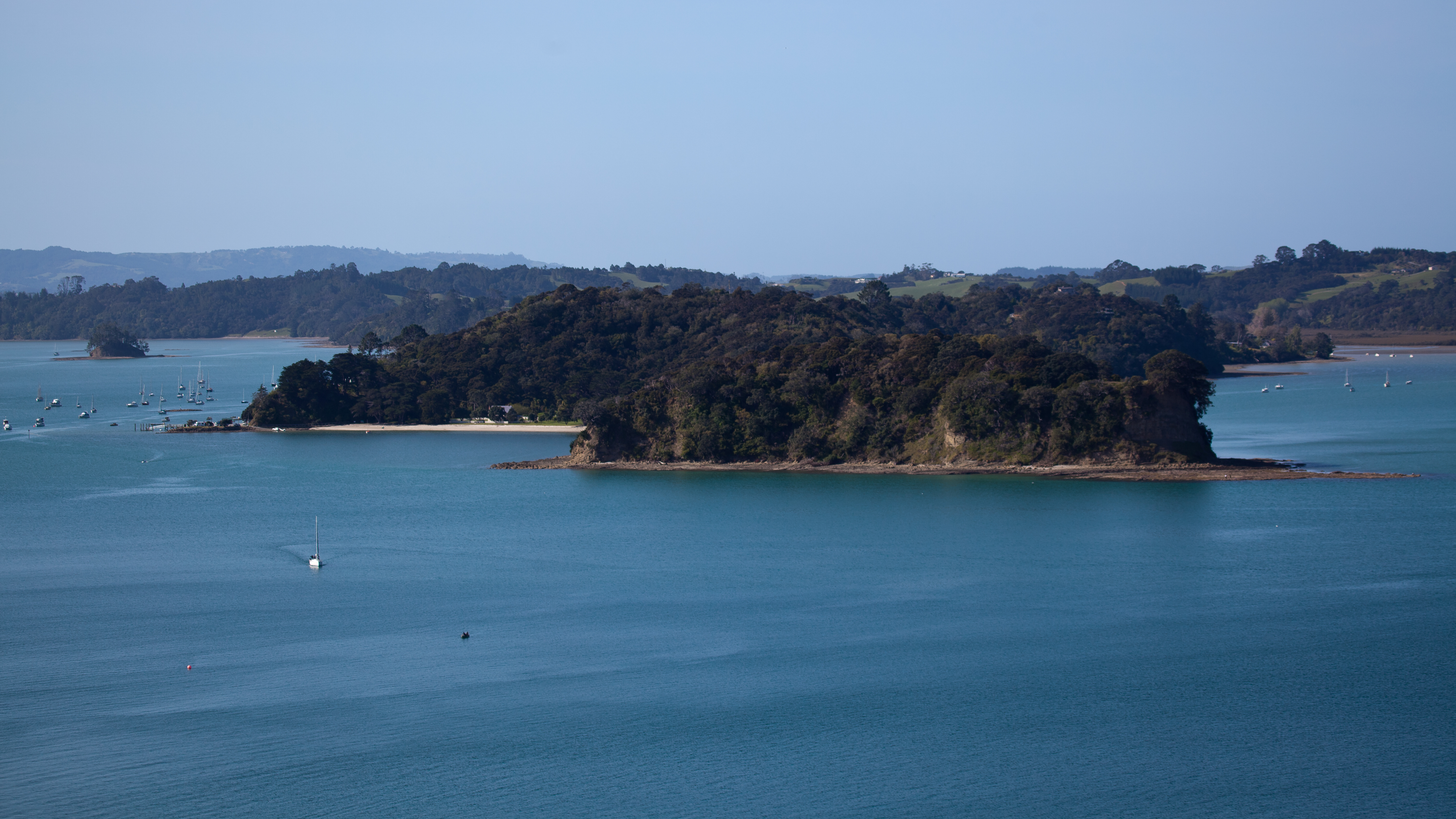 Casnell Island viewed from the south, with Scotts Landing visible on the left. Mahurangi peninsula, Auckland region.